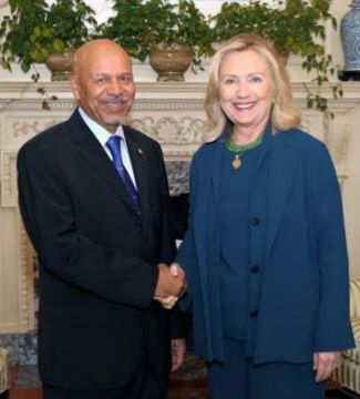 U.S. Secretary of State Hillary Rodham Clinton meets with newly credentialed Libyan Ambassador Aujali at the U.S. Department of State in Washington, D.C., on September 8, 2011. [State Department photo/ Public Domain]